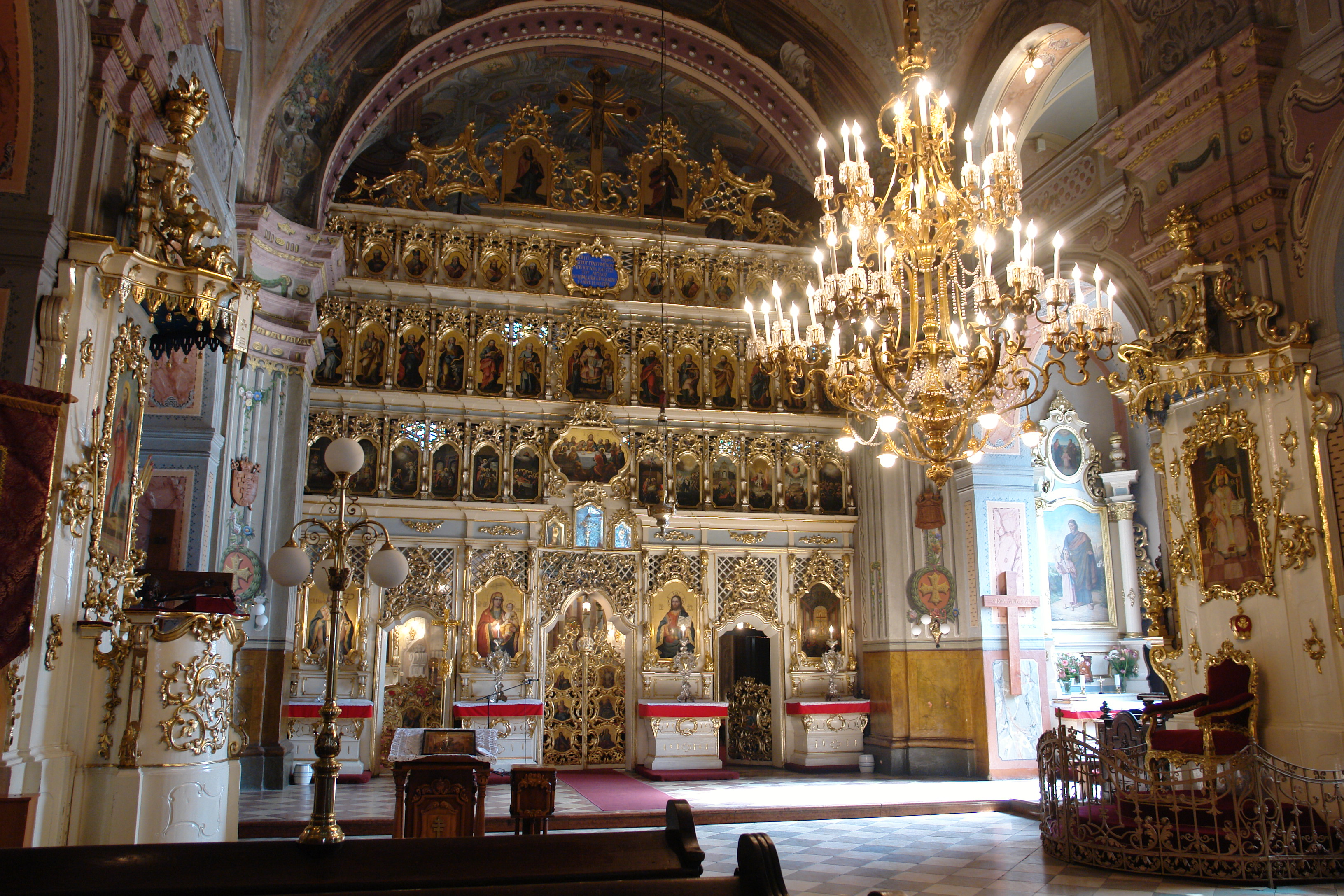 Uzhhorod, iconostas